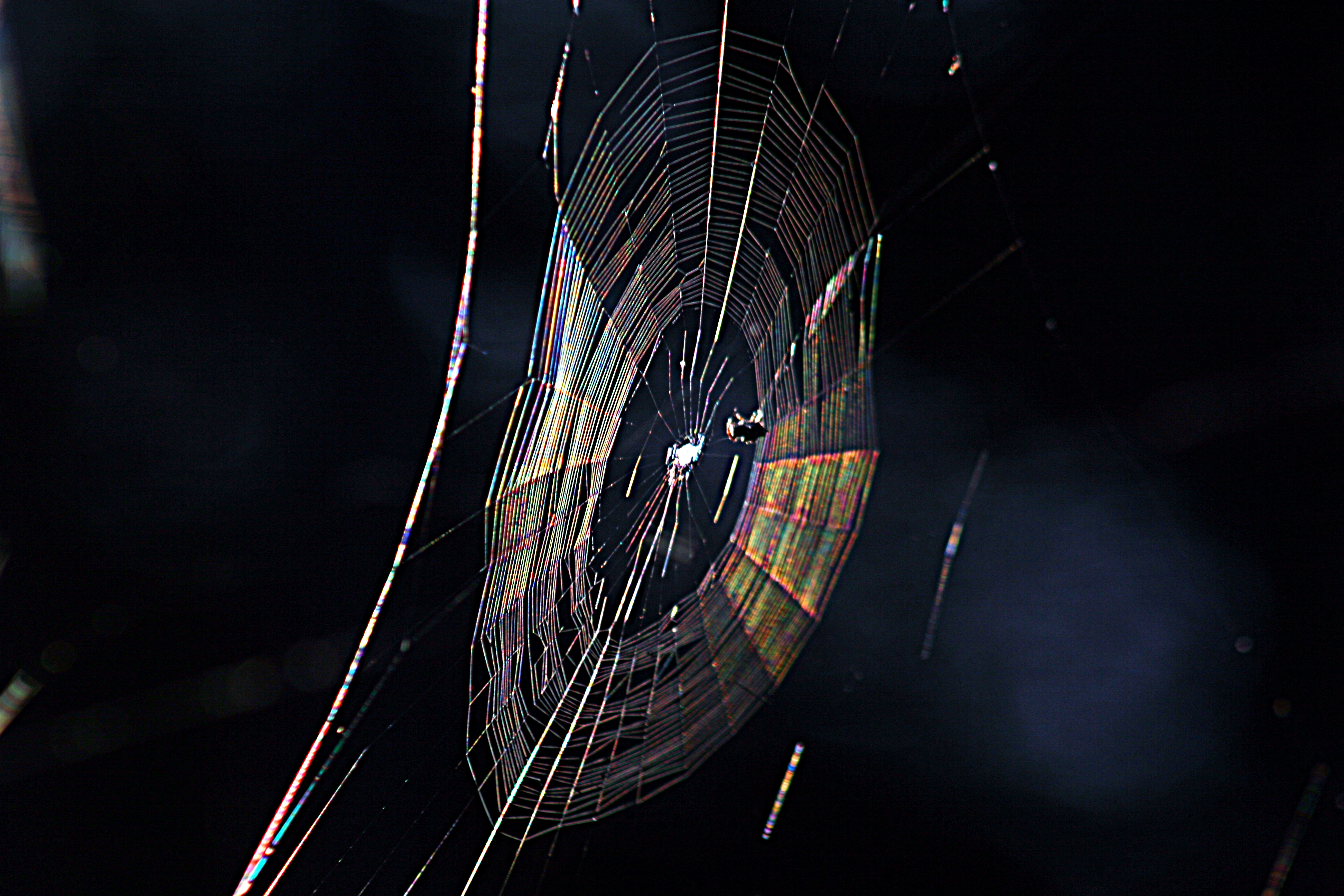 Diffraction pattern in a spiderweb. You could find the explanation to this phenomena here and here